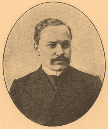 Illustration from Brockhaus and Efron Encyclopedic Dictionary (1890—1907)